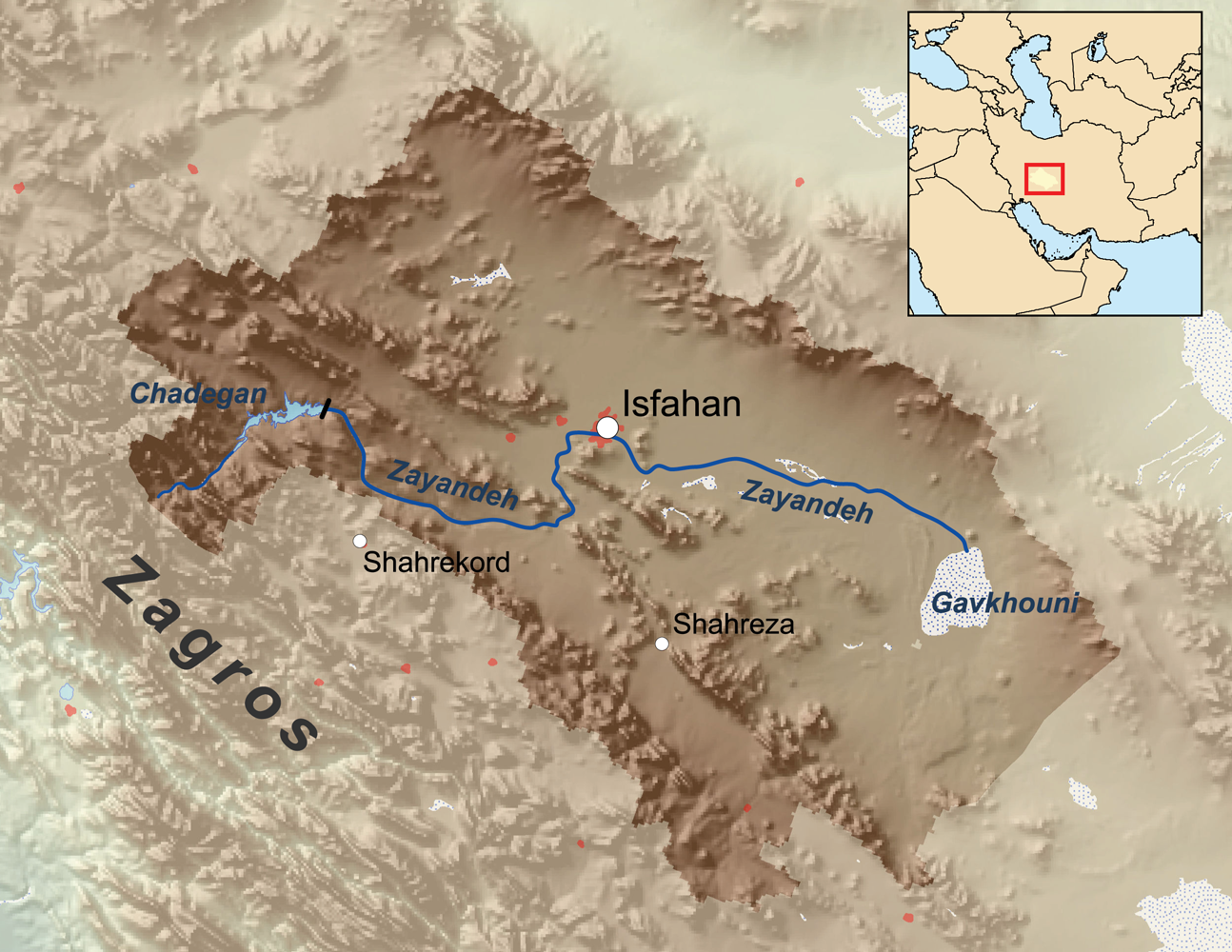 Map showing the Zayandeh River and the Zayandeh/Gavkhouni drainage basin in Iran. Urban areas are in red.